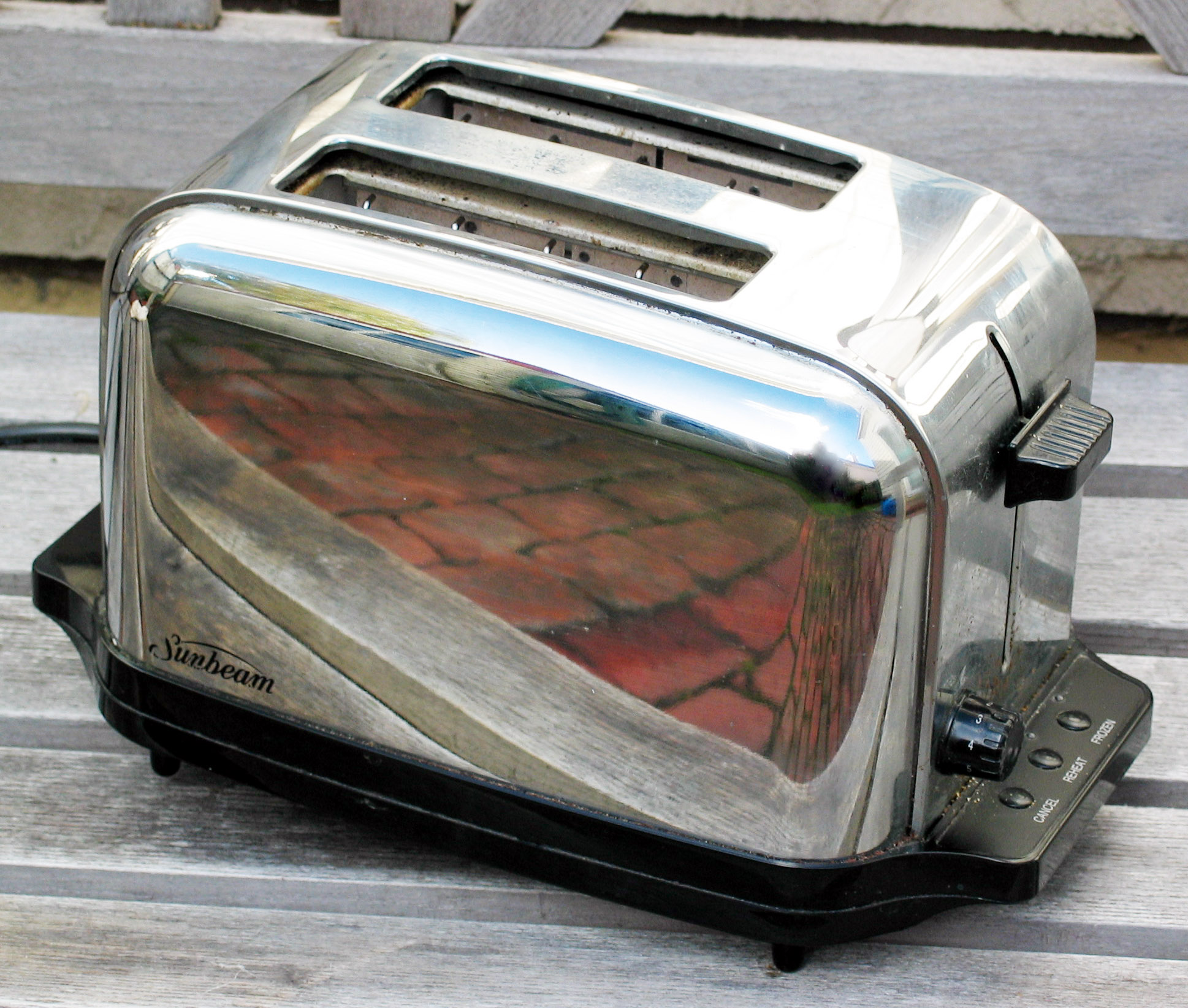 This is a two slice Sunbeam toaster.